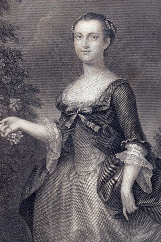 Portrait of Martha Washington (1731-1802)